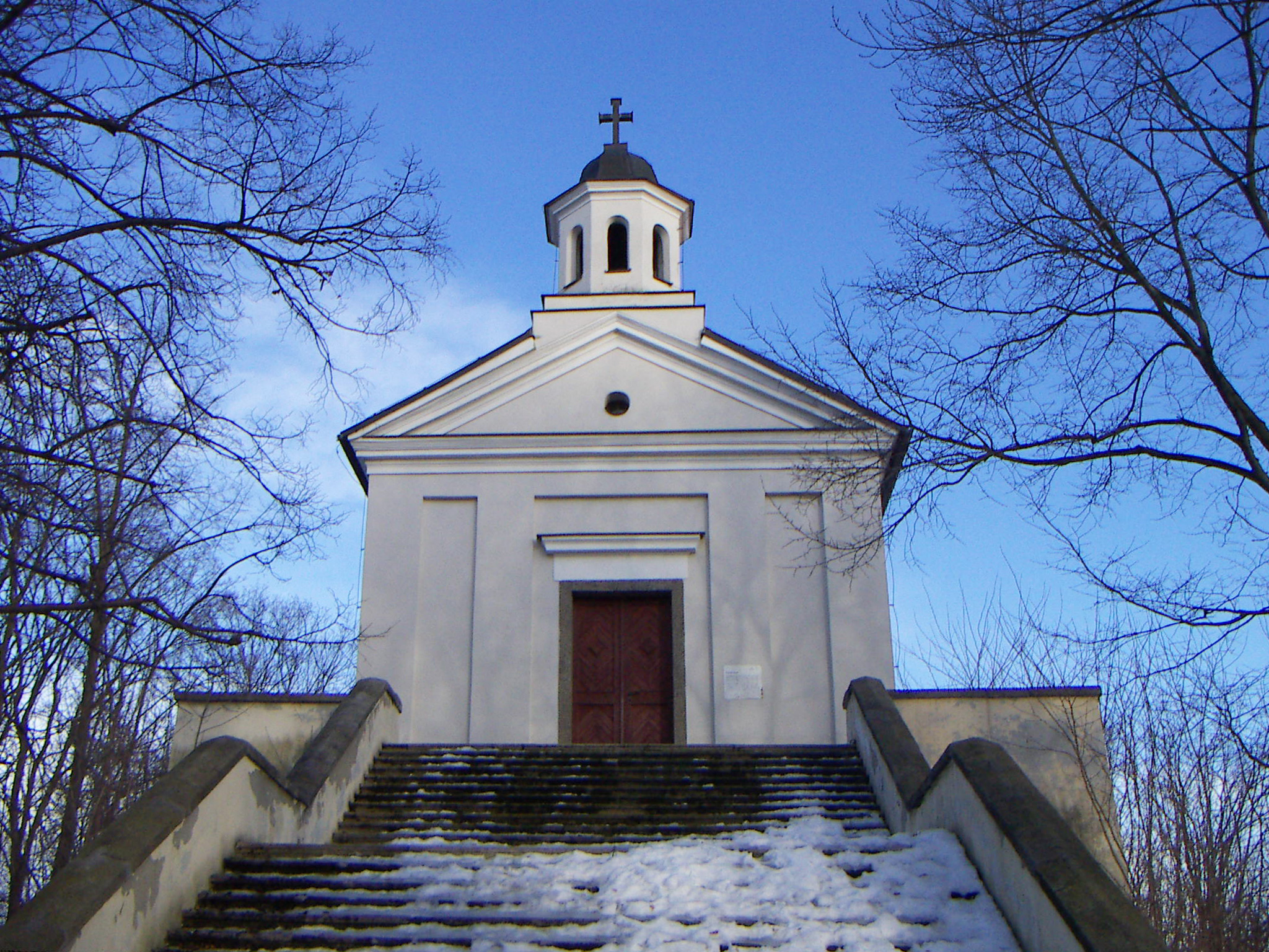 Chapel situated on the site of a former castle in Mladá Vožice, Czech Republic